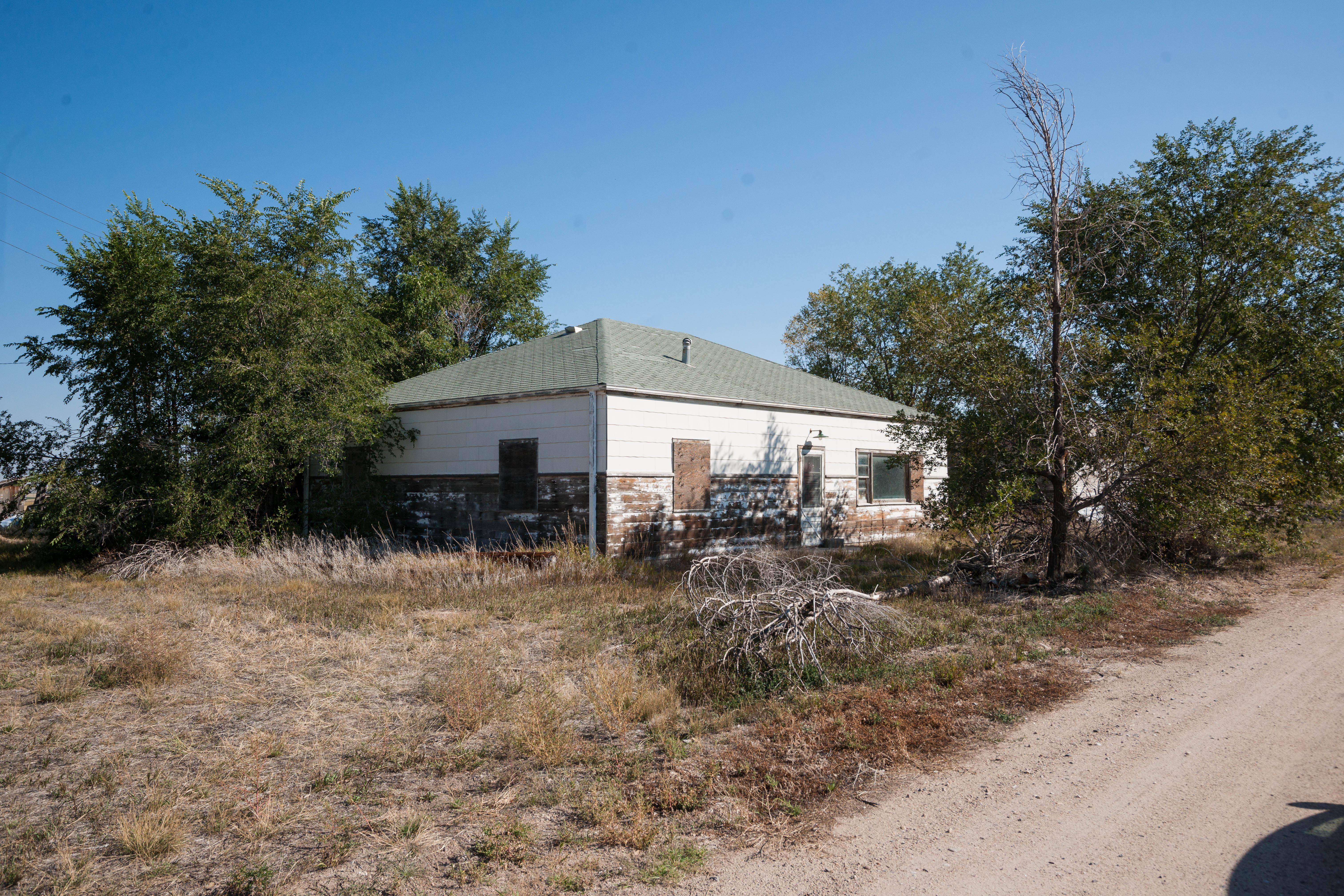 From